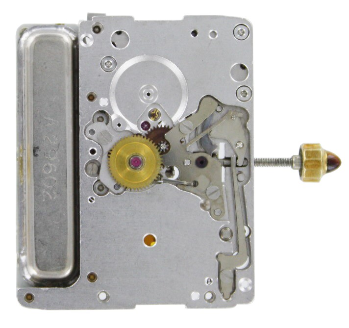 Beta 21 movement, dial side